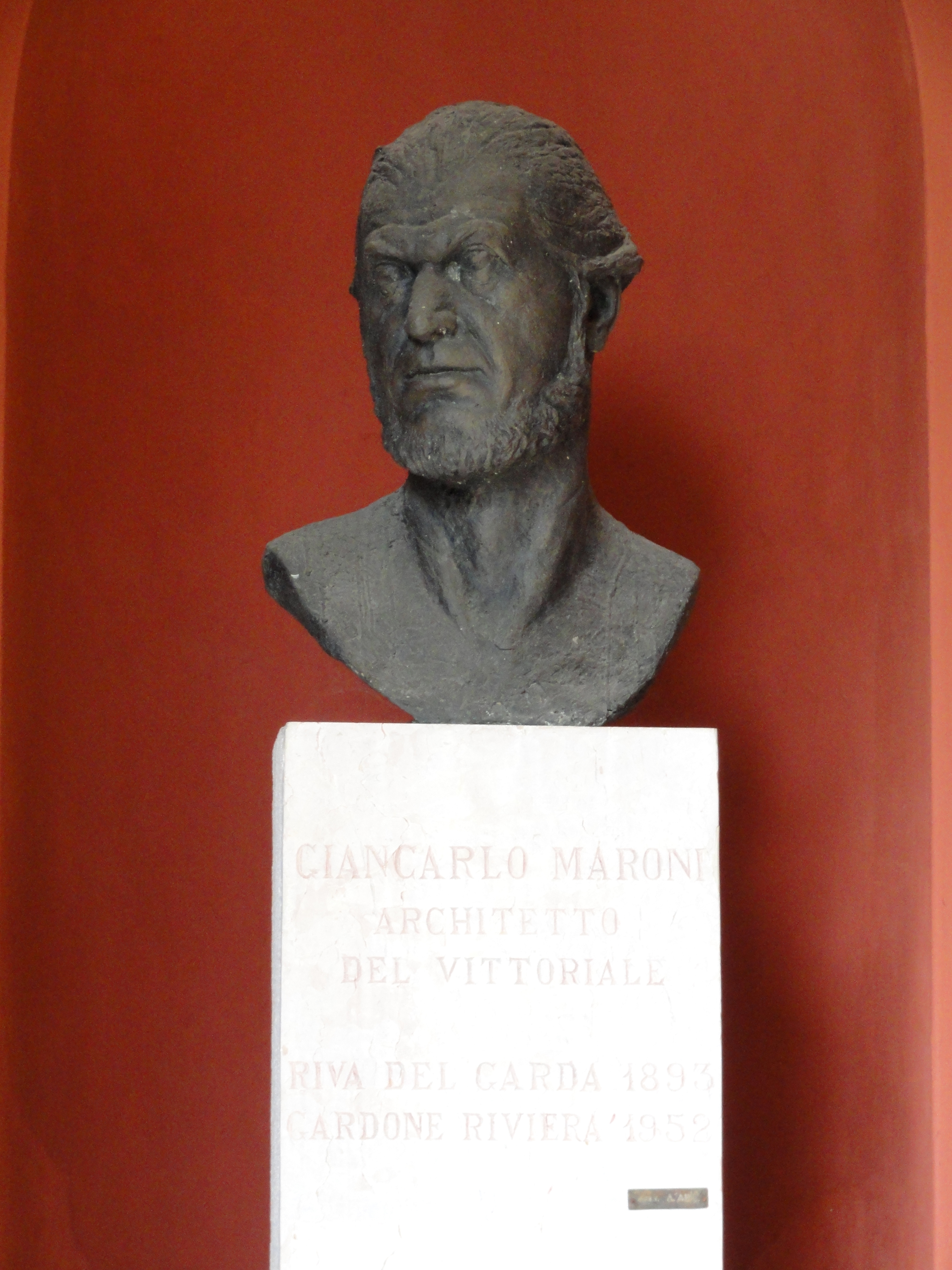 Bust of architect Giancarlo Maroni, near the light cruiser Puglia, at the Vittoriale degli italiani, in Gardone Riviera, on Lake Garda, Brescia, Italy.